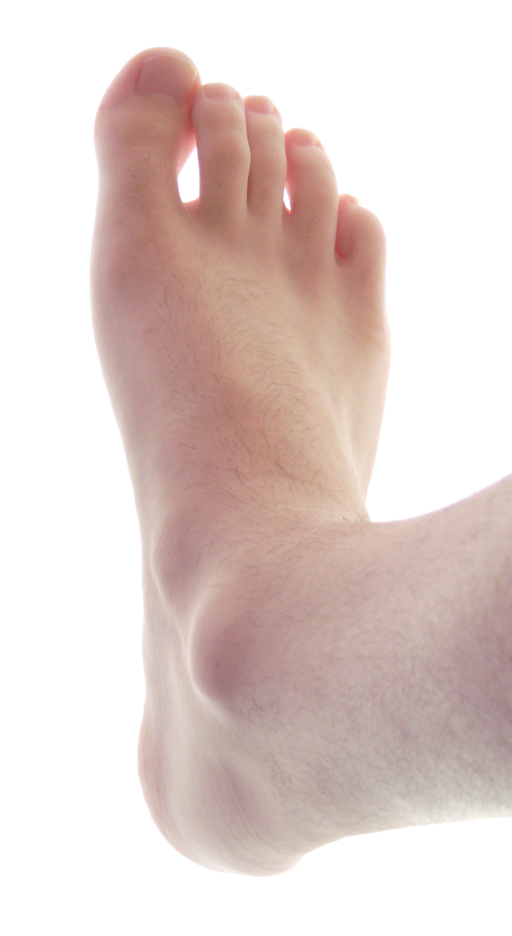 Grown male right foot (angle 2)